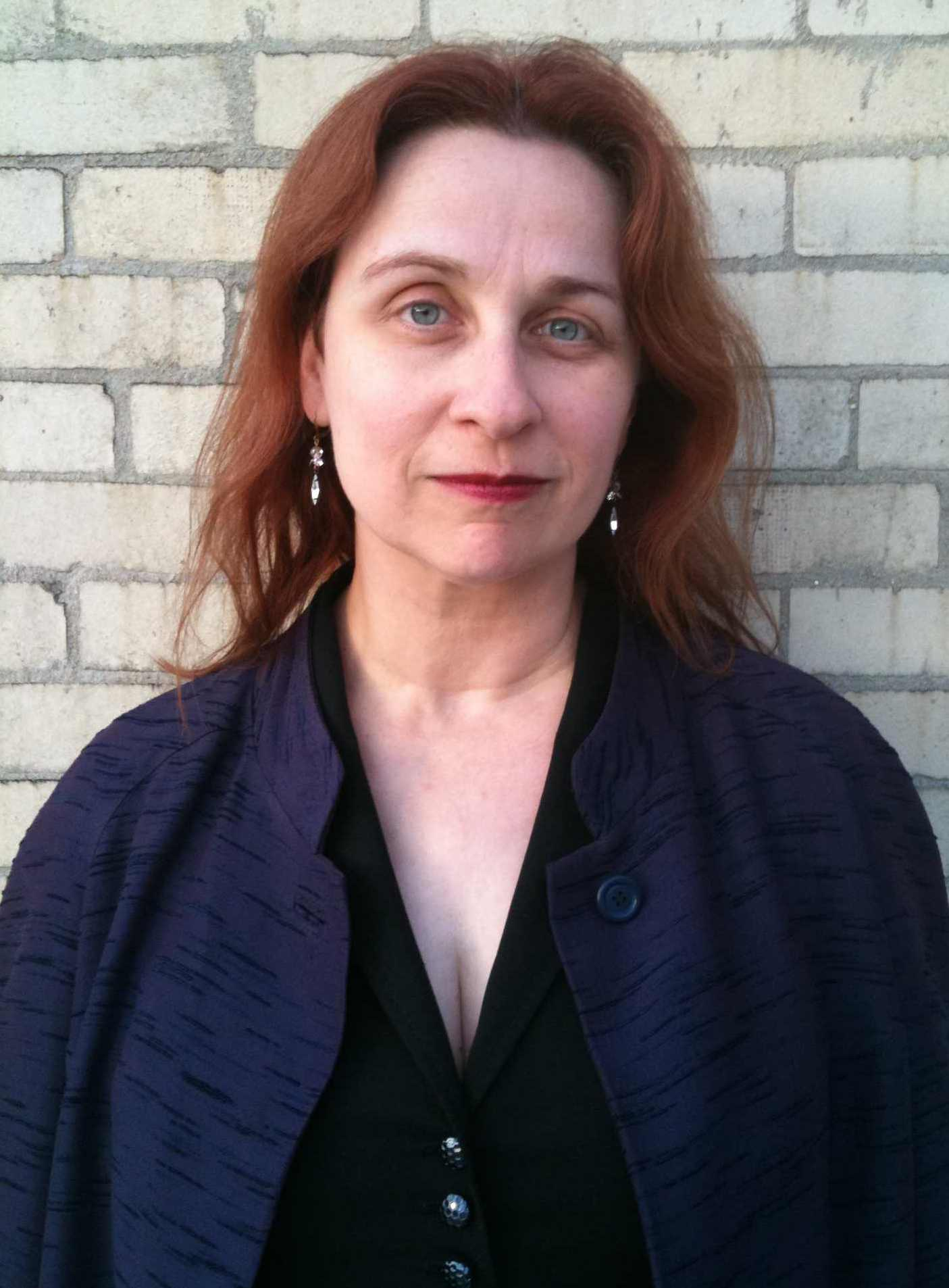 Portrait of Audrey Niffenegger